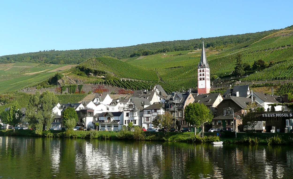 The Mosel river with the Merl village, between Bullay and Zell.